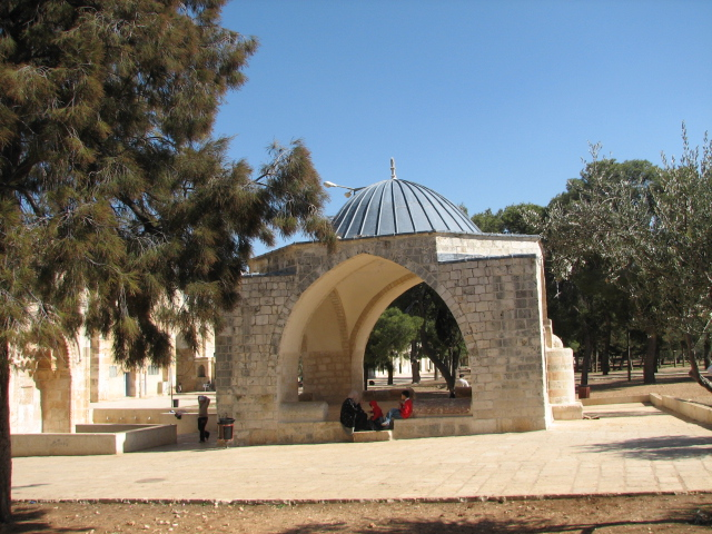 Islamic pavilion at Al-Aqsa Mosque, Jerusalem.